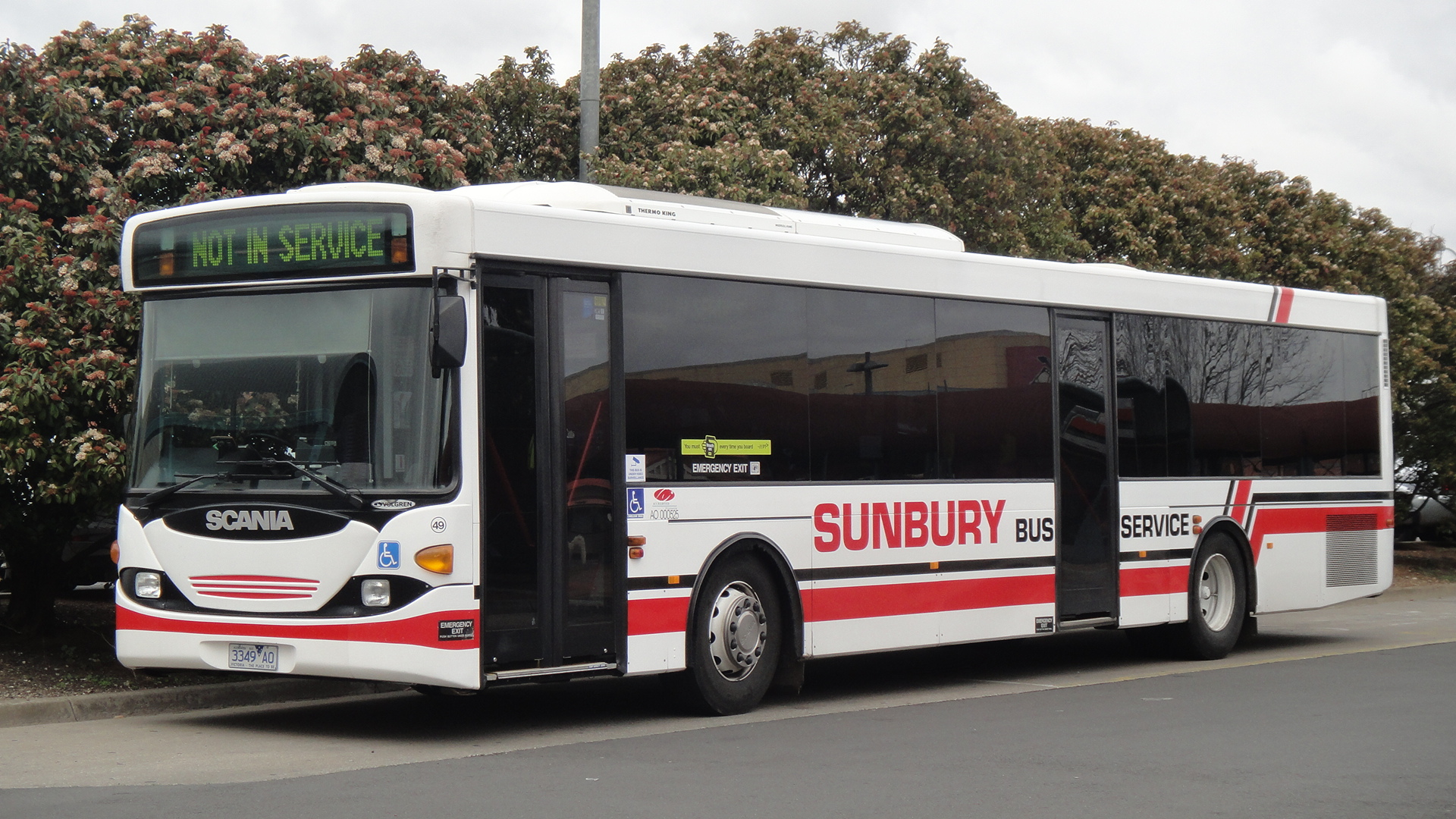 Bus at Sunbury Station